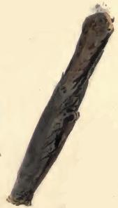 Stainton’s Natural History of the Tineina (1855–1873): Coleophora hemerobiella larval case